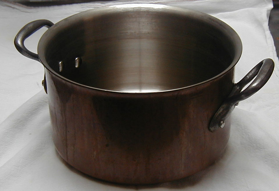 my own picture, to be added to cookware and bakeware